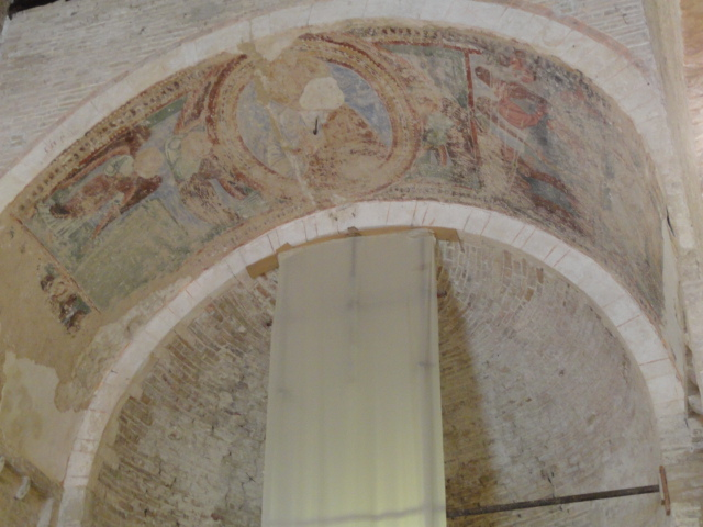 Triumphal arch